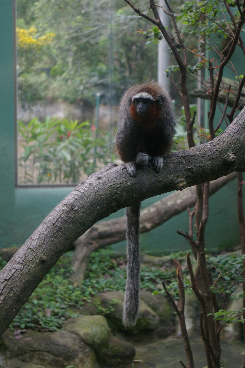 Callicebus ornatus in Cali Zoo.